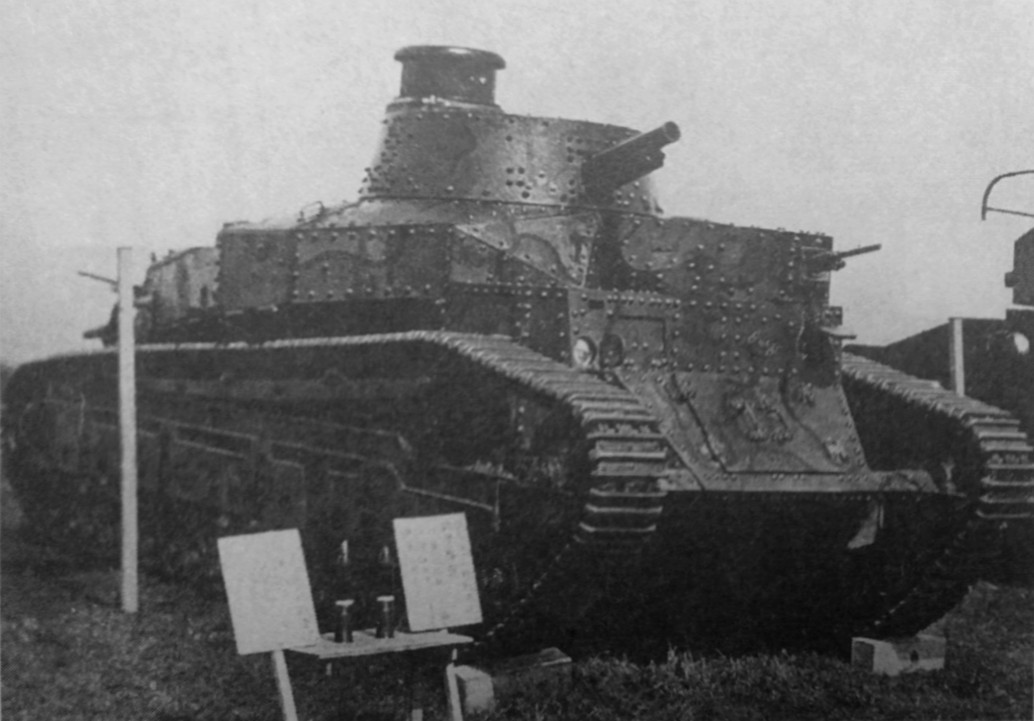 Imperial Japanese Army Experimental tank No.1